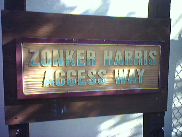 Picture of the Zonker Harris Access Way in Malibu, CA. (Taken by me on my cell phone camera.)